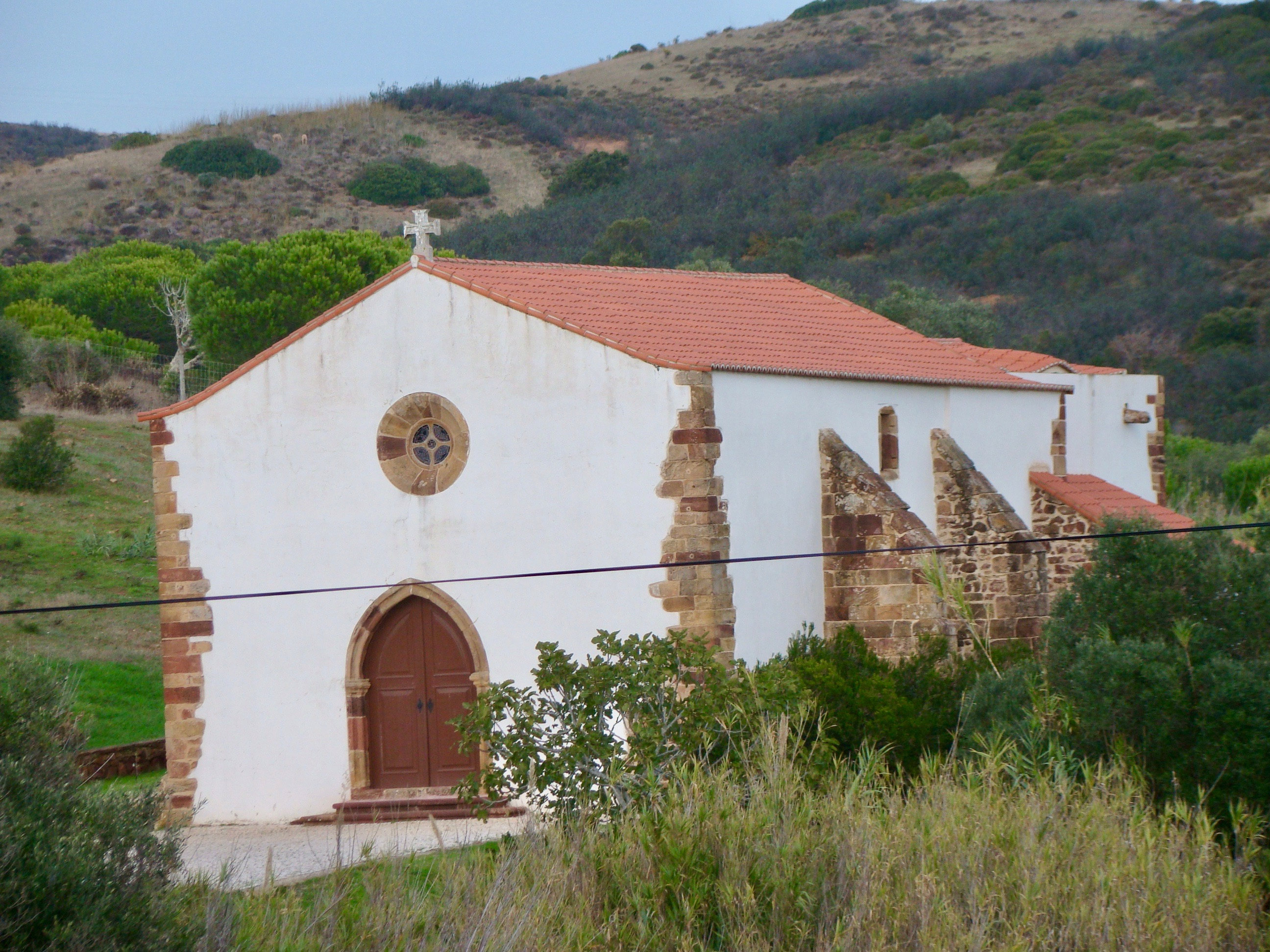 Chapel of Nossa Senhora da Guadalupe, situated on the municipality of Vila do Bispo, in Portugal.